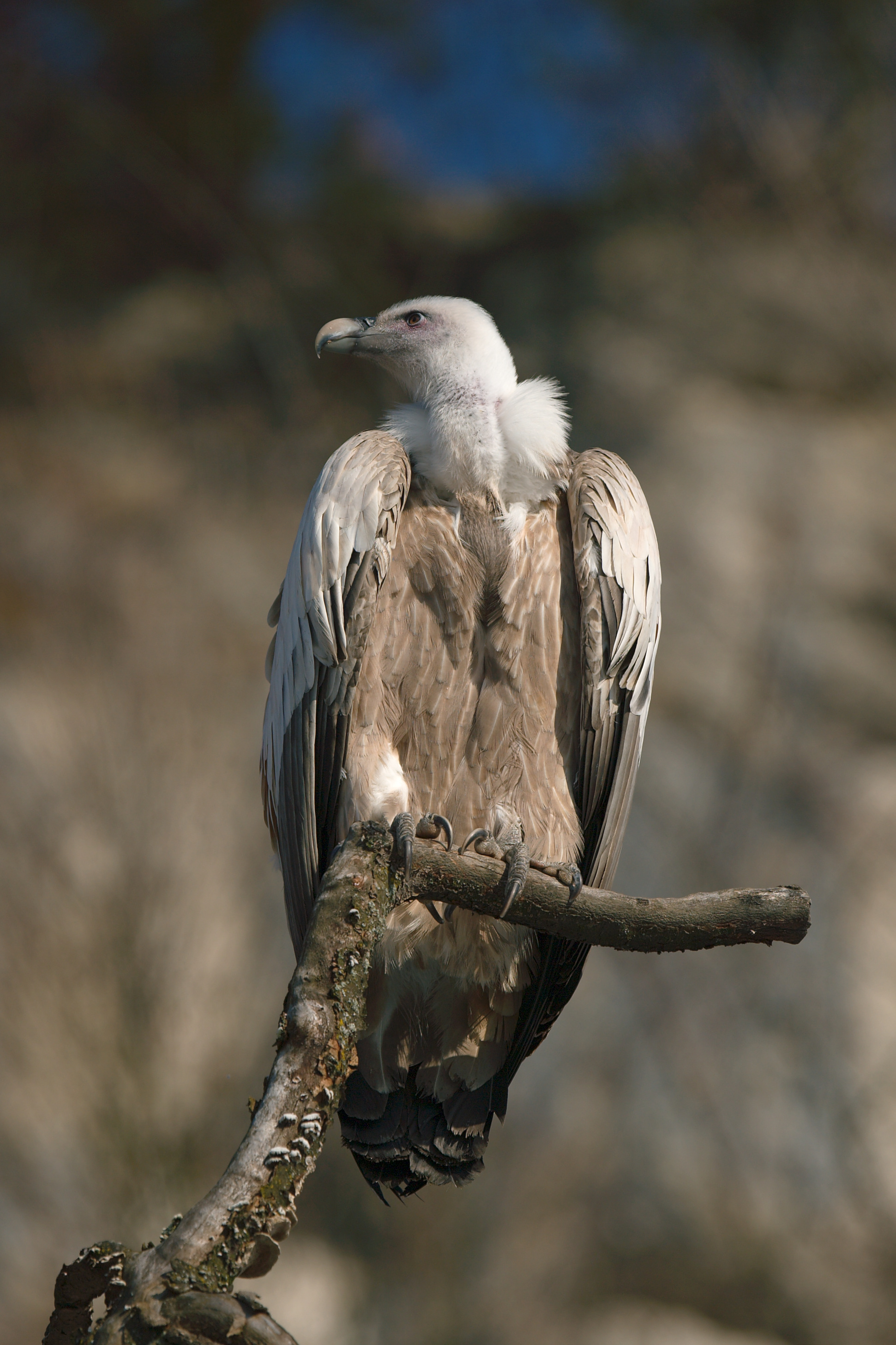 Gyps fulvus at zoo Salzburg 2010